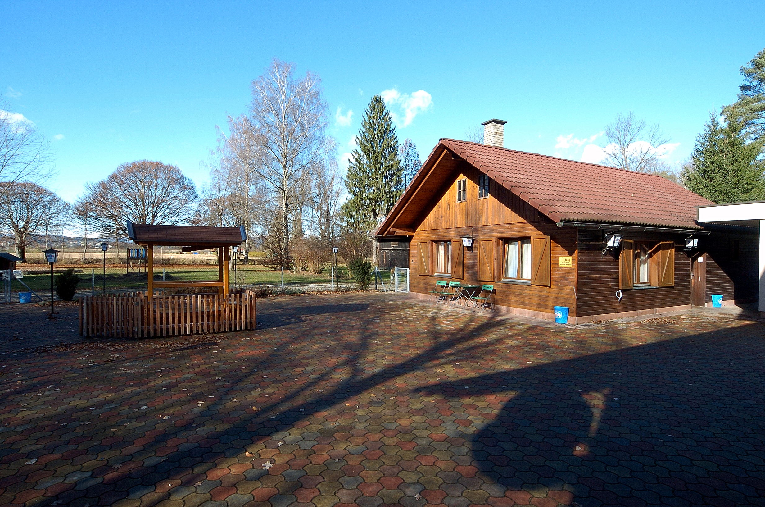 Kalmus bath on the Glanfurt in the municipality of Ebenthal, district of Klagenfurt-Land, Carinthia, Austria